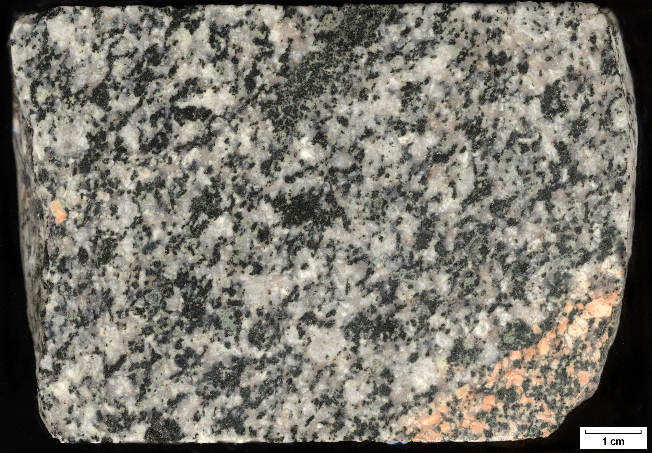 Bedrock sample from a UGSG drill core at Western Cape Cod, Massachusetts. Sample 82MW0001 is a granite containing plagioclase, quartz, K-feldspar, oxides, and biotite/chlorite (This estimate is based solely on hand sample). No foliation is present and biotite appears to have been altered to chlorite.